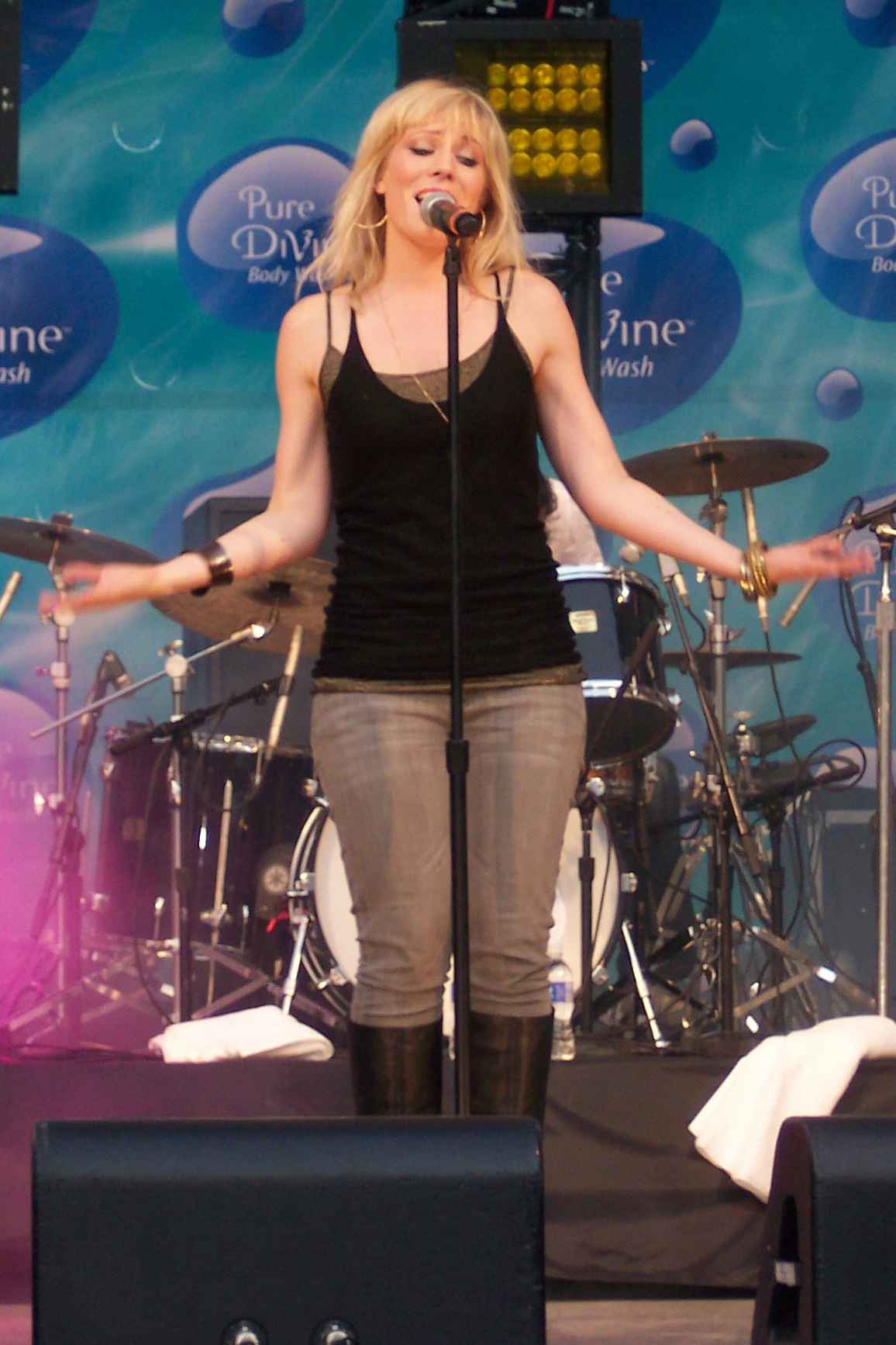 Photograph taken by me at Yonge-Dundas Square in Toronto, Ontario, Canada on October 3rd, 2007 of Natasha Bedingfield performing.